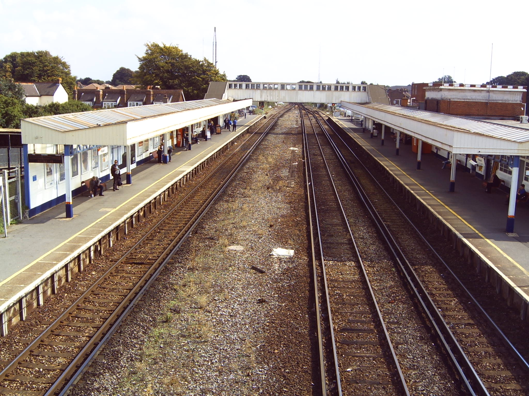 Havant railway station as seen from the western footbridge, taken on 13th September 2005 by Benjamin Richard Wheatley.